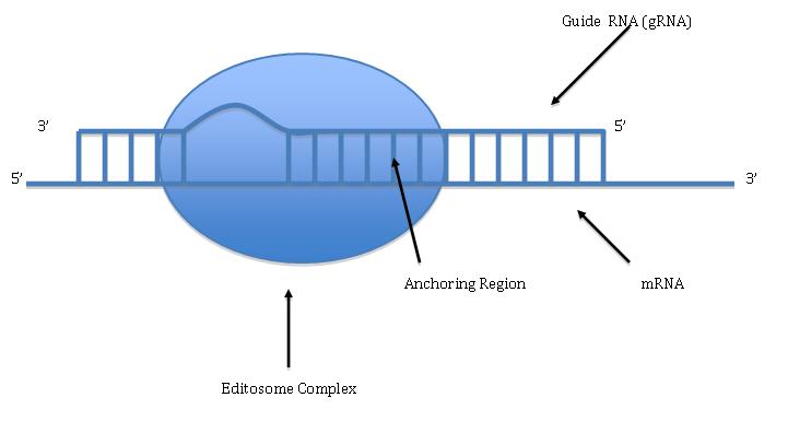 Personal Rendition of how the Editosome Complex should look like, as described in other studies by researchers.